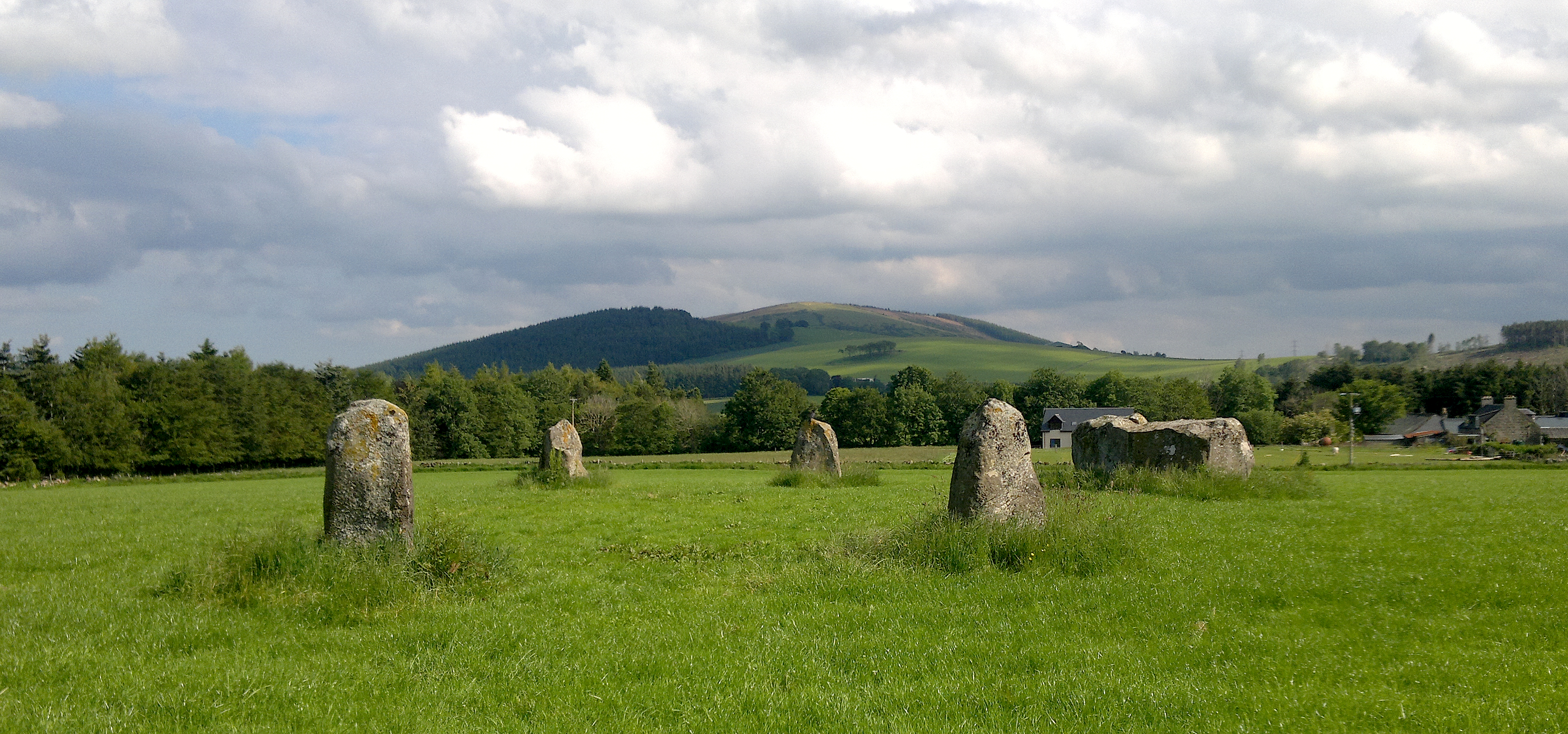 Remains of a recumbent stone circle whose large recumbent stone bears many cup marks.